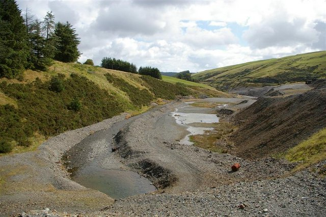 Former mine workings at Dylife. This stream (Afon Twymyn) skirts the very northern edge of this square. Industrial Archaeologists proceed to